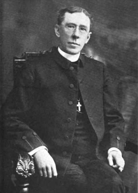 The Rt. Rev. WIlliam Hall Moreland, first Episcopal Bishop of the Missionary District of Sacramento. Consecrated January 25, 1899.